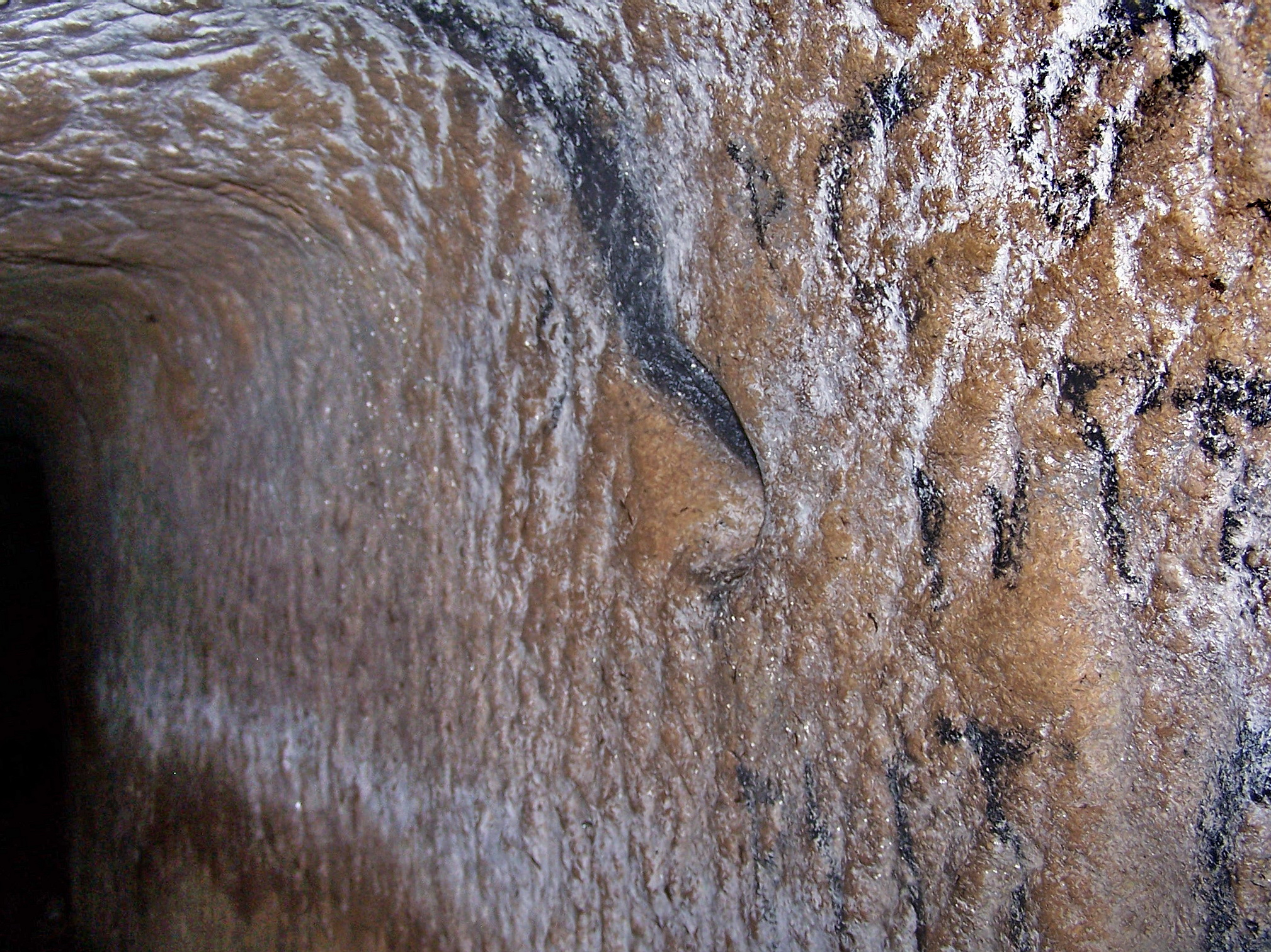 Aix Aqueduc : La Traconnade" hole for oil lamp